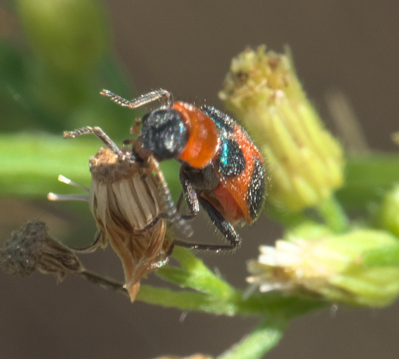 Collops quadrimaculatus, Family: Soft-winged Flower Beetles, ID Confidence: 80